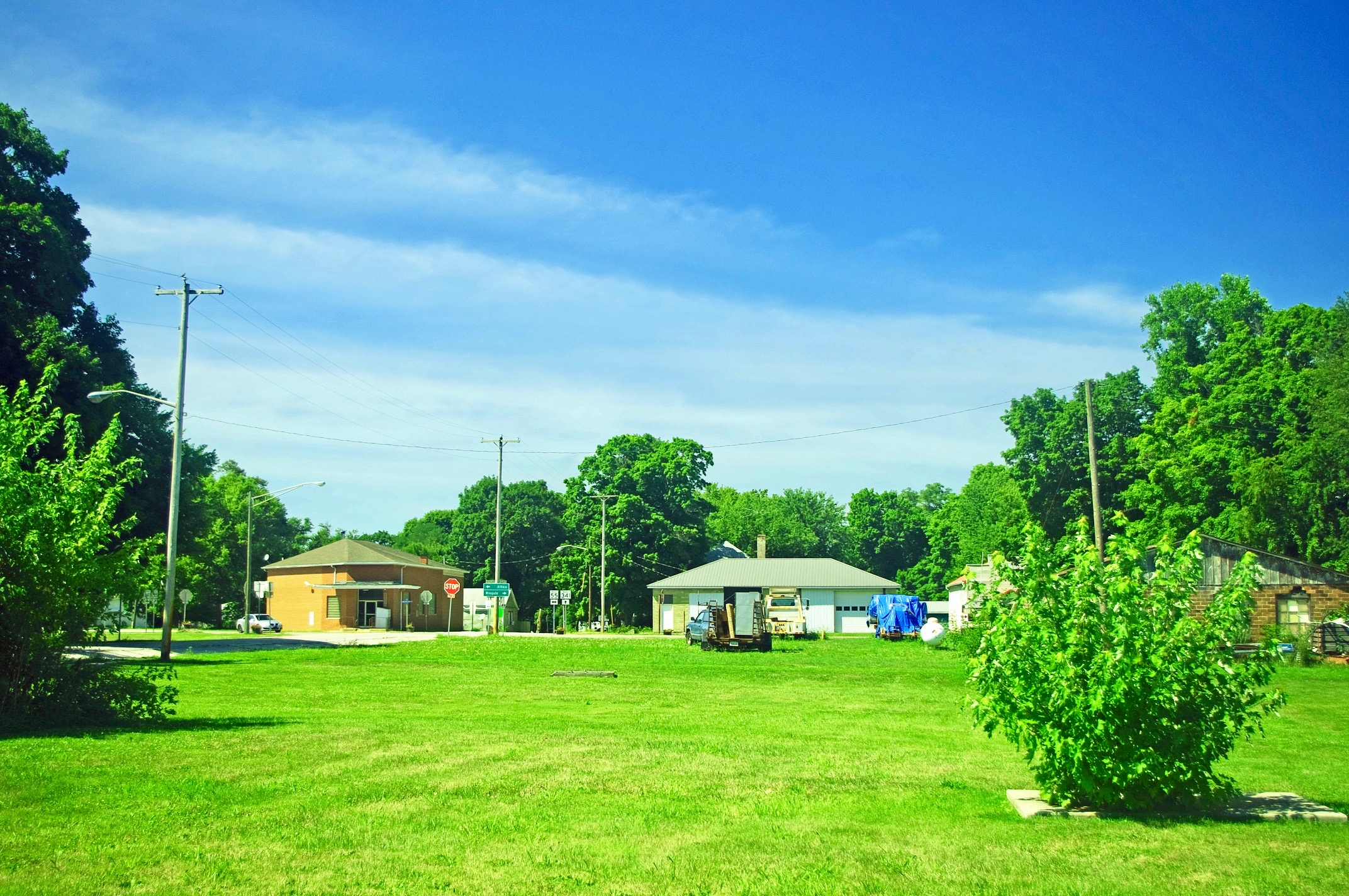 Newtown, Indiana, United States, looking in the direction of the intersection of State Road 341 and State Road 55.